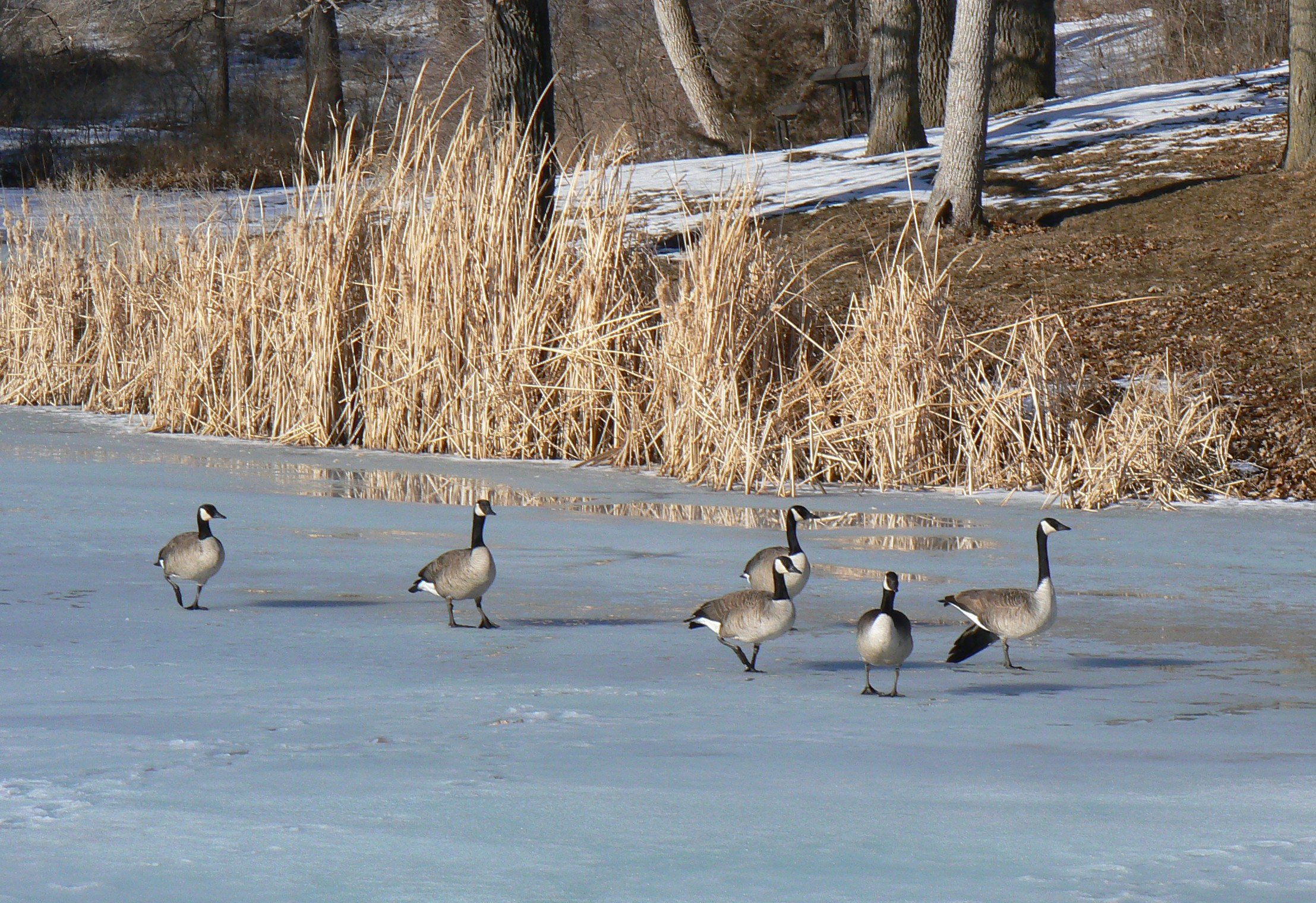 Canada geese on frozen lake in Platte River State Park